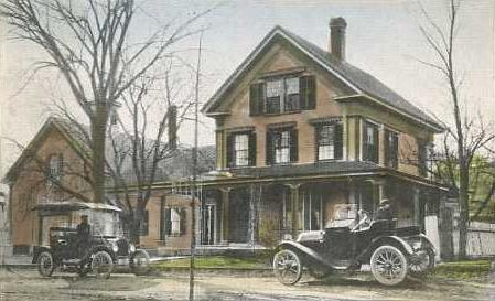 Philbrick House, Freedom, NH; from a 1916 postcard.